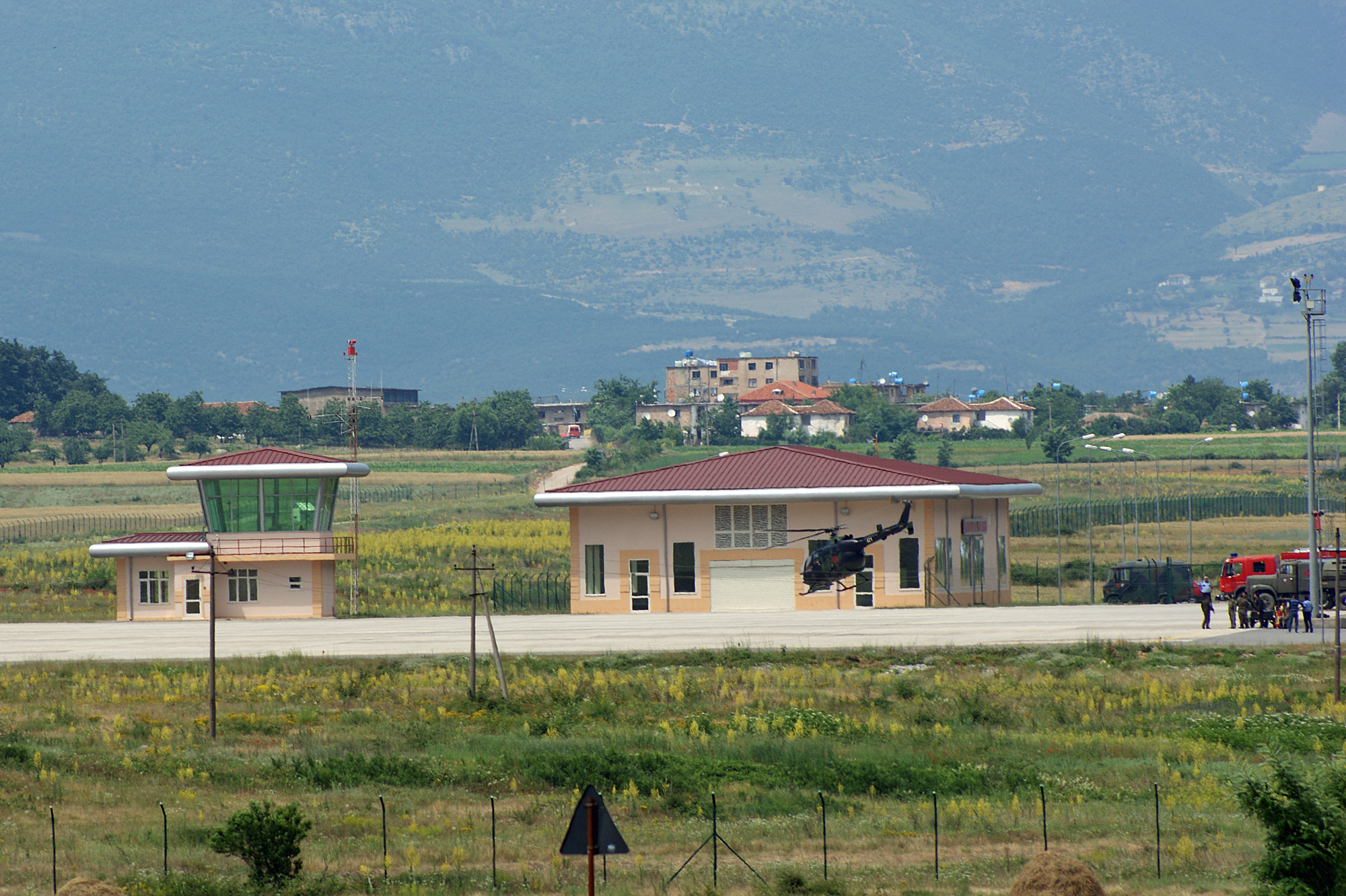 Eurocopter Bo 105 starting at Kukës Airport, Albania